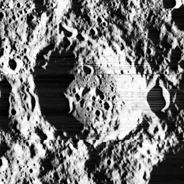 Oblique view of Schliemann, on the far side of the moon.